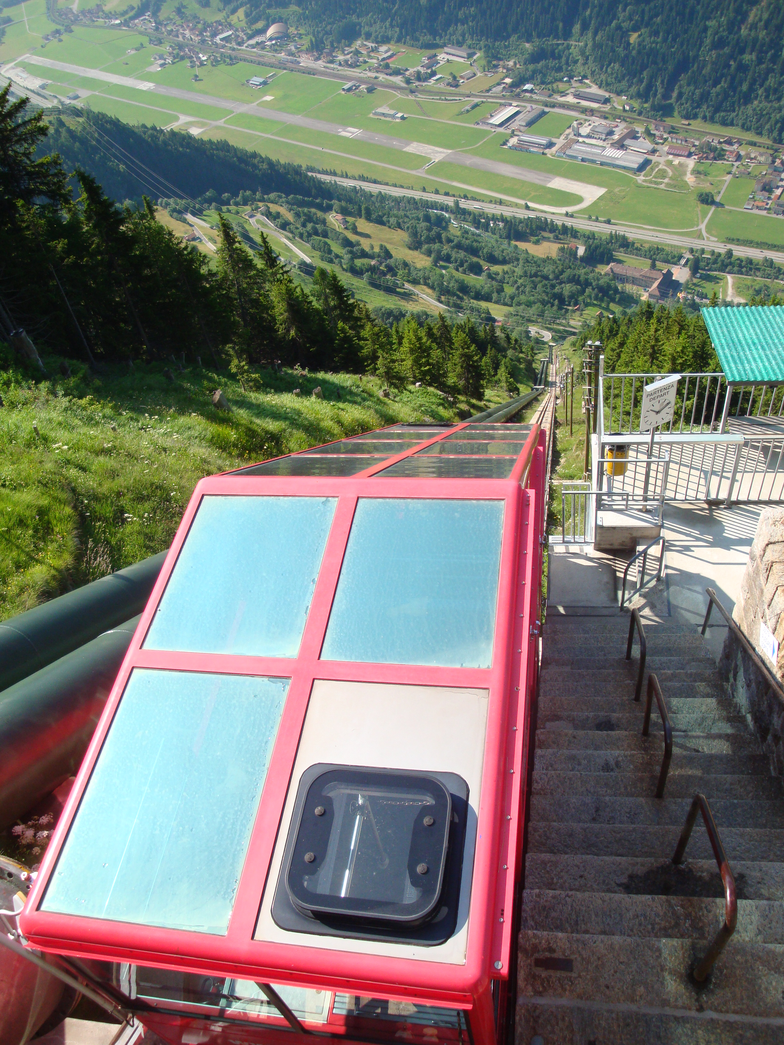 Funicular above the village of Piotta in the municipality of Quinto in Ticino, Switzerland. It runs from near Lago Ritom in the mountains down to village. Ambri Airport can be seen at the bottom of the valley. For more information, see the Wikipedia articles Ritom funicular and Ambri Airport.